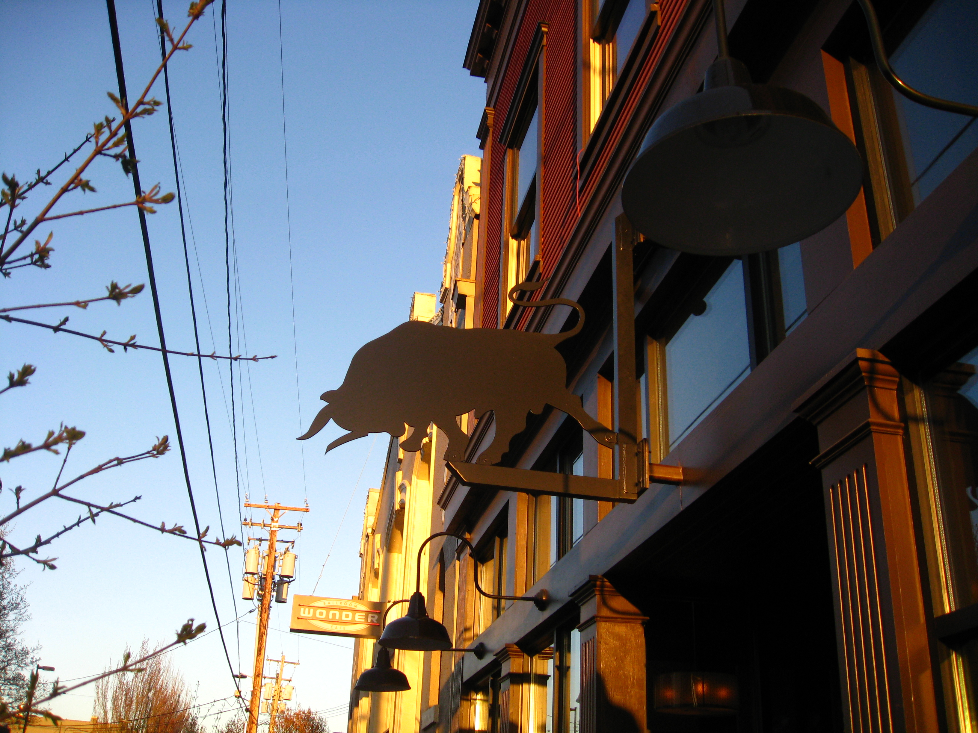 Sign and exterior of Toro Bravo, a Spanish (tapas) restaurant in Portland, Oregon.